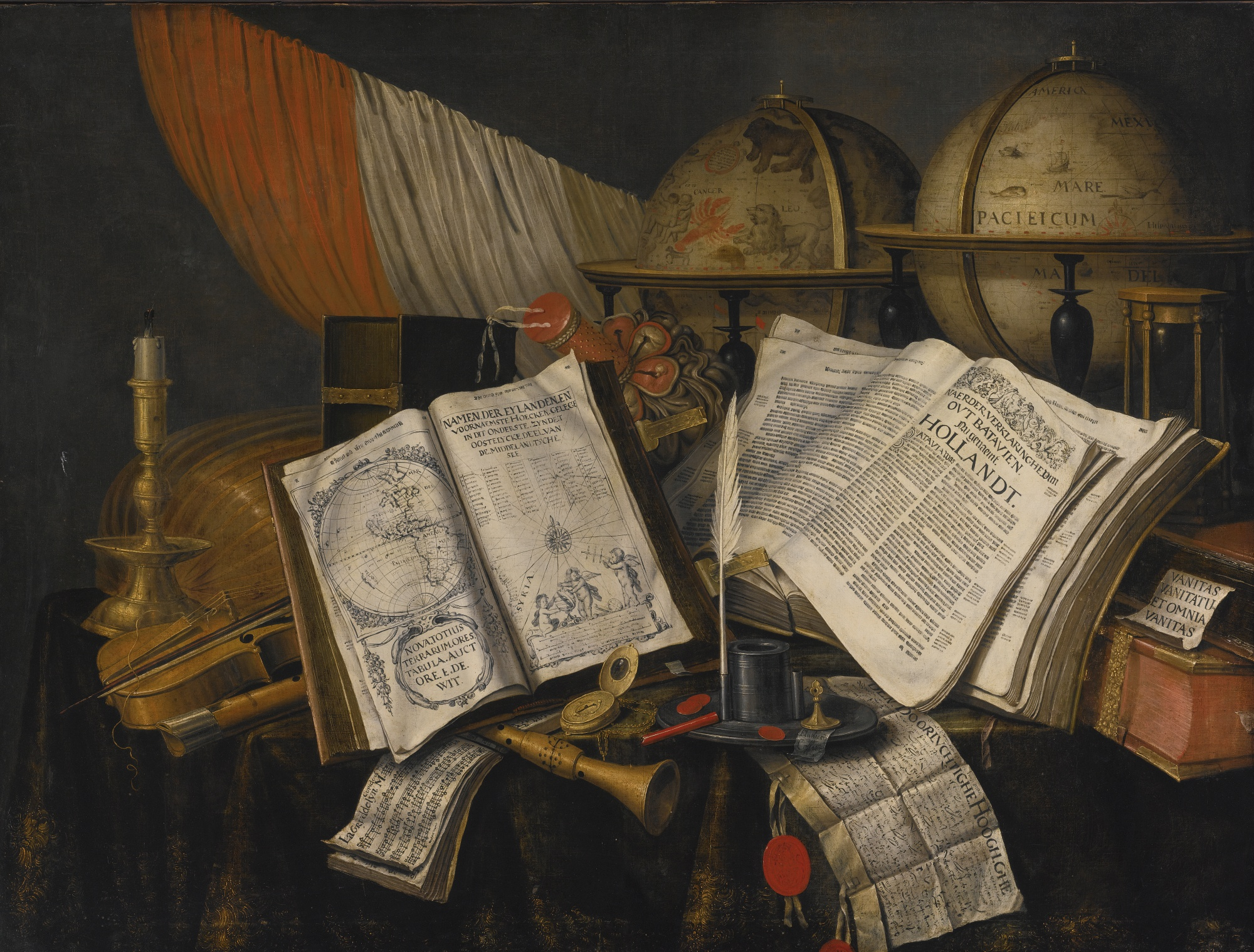 Edwaert Collier, Breda 1642 - 1708 London(?), Vanitas Still Life With a Candlestick, Musical Instruments, Dutch Books, a Writing Set, an Astrological and a Terrestrial Globe and an Hourglass, All on a Draped Table, signed and dated lower center: Edwaerdt/Collier/1662, oil on canvas, 98 by 129.7 cm.